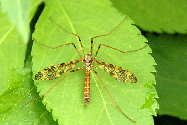 Epiphragma ocellare from Commanster, Belgian High Ardennes Antennae with scape and pedicel dark, base of flagellum swollen, orange, remainder dark; thorax hairy, ground-colour yellow, grey pruinose; four brown praescutal stripes, obscured by pruinosity ; abdomen partly yellow, with more or less extensive brown markings ; legs yellow, femora with two narrow black rings on distal half, the outer ring well before the tip, one or other of these rings sometimes very faint or absent ; wings with a more or less intense ocellate pattern; wing-length 9- 12 mm.. Frequent in wet woods. Generally distributed. 5-6.